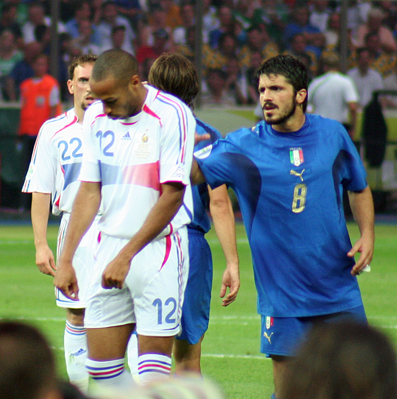 Italy vs France, FIFA World Cup 2006 final, french forward Thierry Henry (left) and italian midfielder Gennaro Gattuso (right).